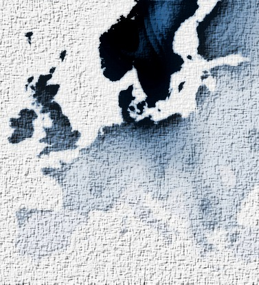 representation of the distribution of haplogroup I1a (aka I1(?), aka I-M253) in Europe. Please note that this image is an artistic interpretation of scientific data. I created this map using information from genetic testing results from various companies. I used Photoshop and the GIMP. Among the studies I used as reference were: Balanovsky et al (2008) Figure 4, Map A. Distribution of Y Chromosomal Haplogroups I1a in Europe Rootsi et al (2004) Figure 1, Map C. Phylogeography of Y-Chromosome Haplogroup I Reveals Distinct Domains of Prehistoric Gene Flow in Europe